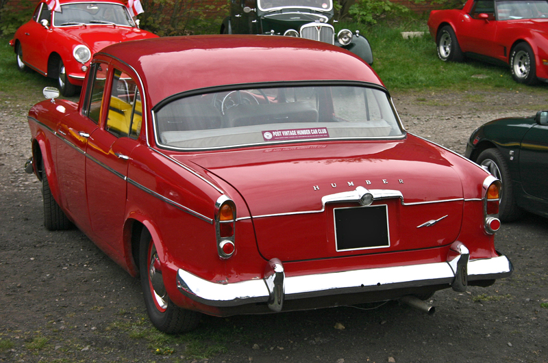 Humber Super Snipe Series IV. The Series IV Super Snipe got a revised roofline and a larger rear window. The quarterlights in the rear doors were now openable.